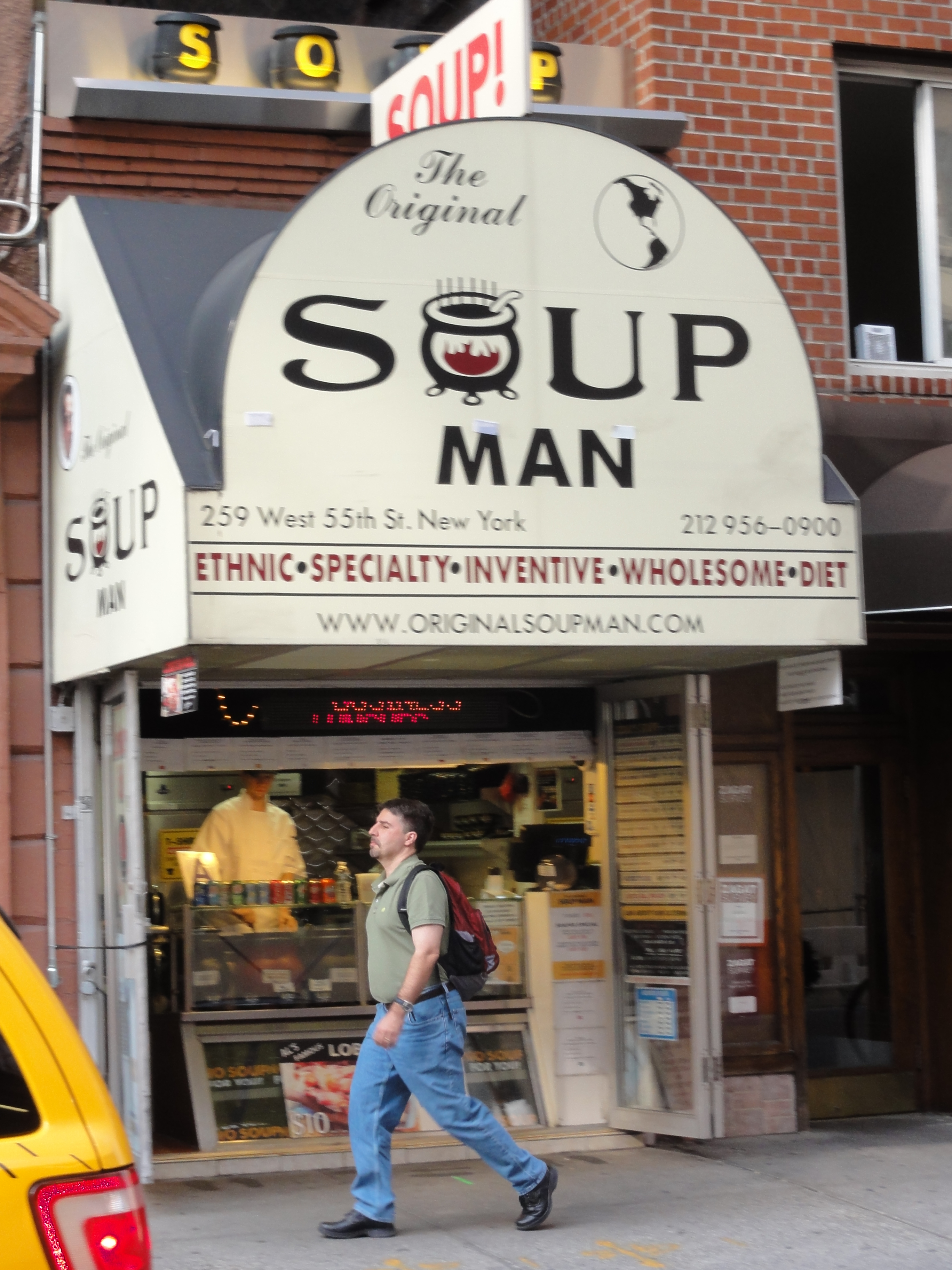 Soup Man 55th Street. Raw model for Seinfeld's Soup Nazi